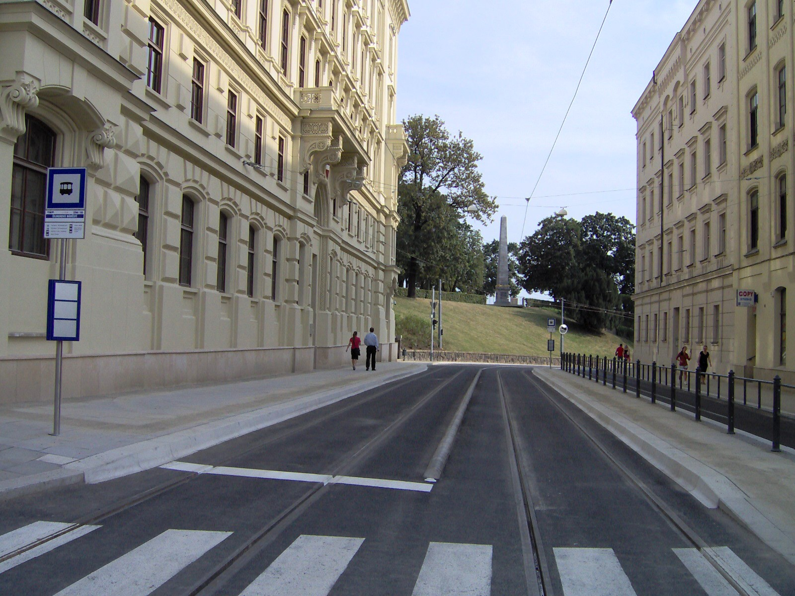 Tram track in Husova street, Brno, Czech Republic